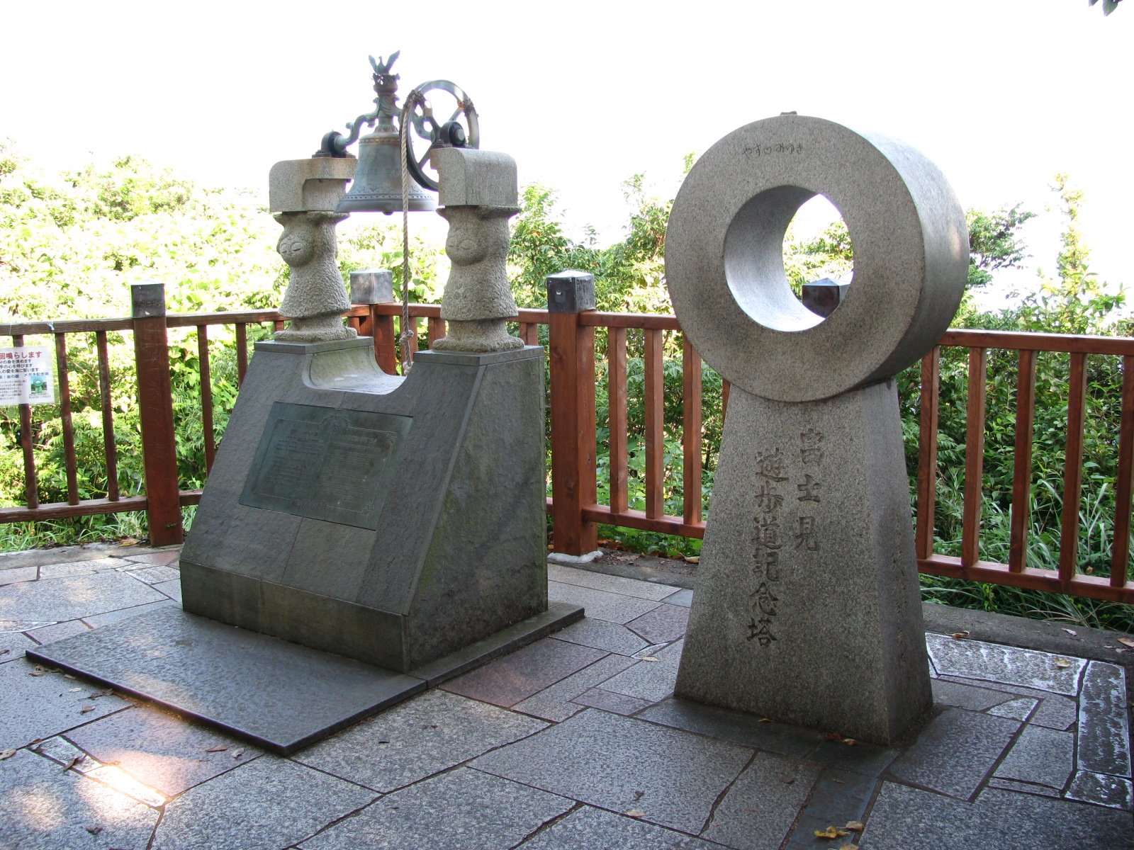 Left bell is the Golden bell, And riget memorial is the Memorial Promenade. The Koibito-misaki (Two Lovers Point) is located in Izu, Shizuoka, Japan.)